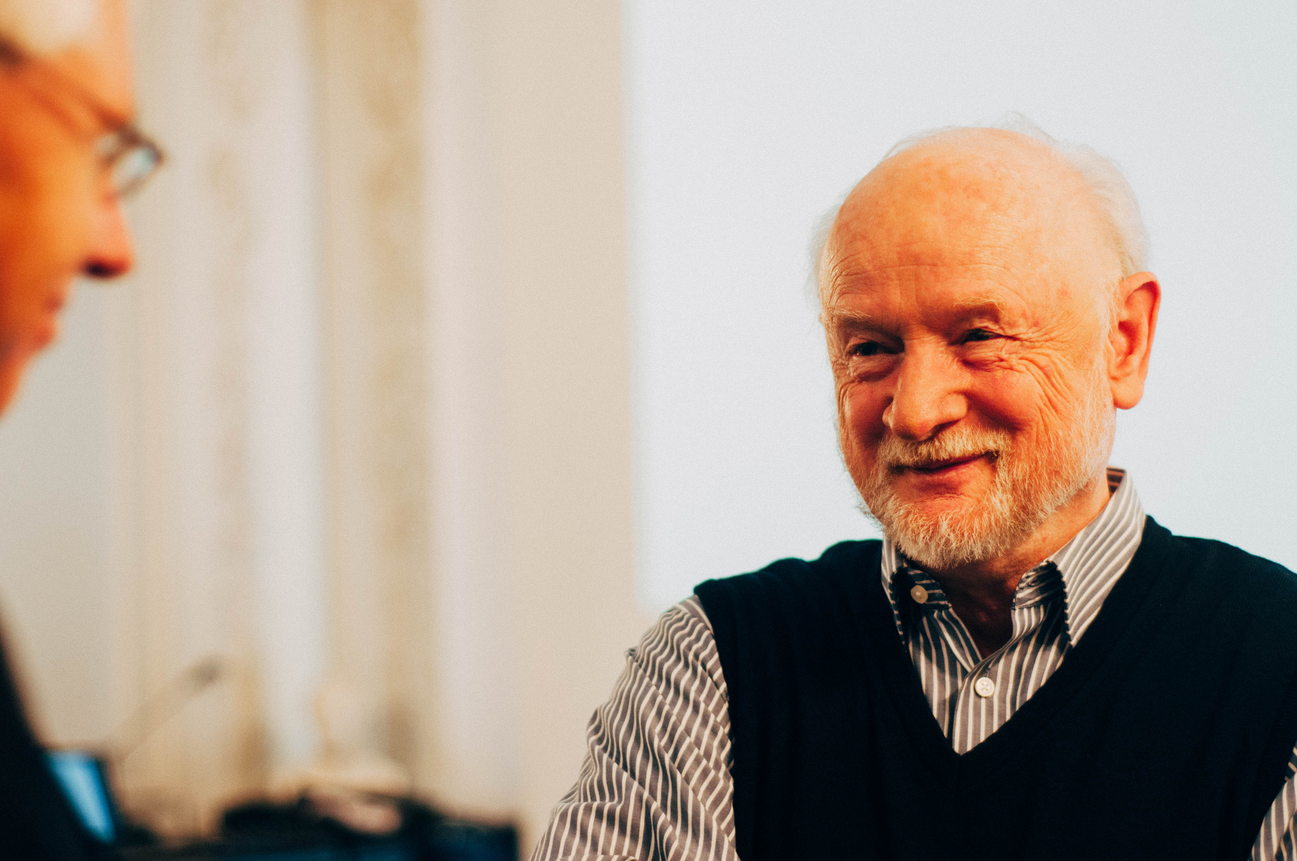 Hannes Adomeit: Germany and Russia 25 Years After German Unification: From “Strategic Partnership” to Containment. Co-sponsored by the American Council on Germany, the Center for the Study of Europe, and the Goethe-Institut Boston. At the Goethe-Institut Boston. Tuesday, May 20, 2015.